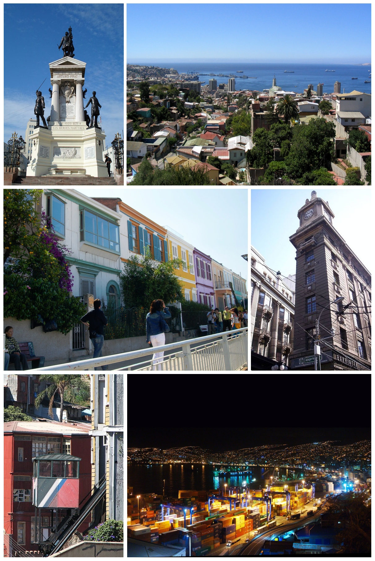 Montage of Valparaíso images.